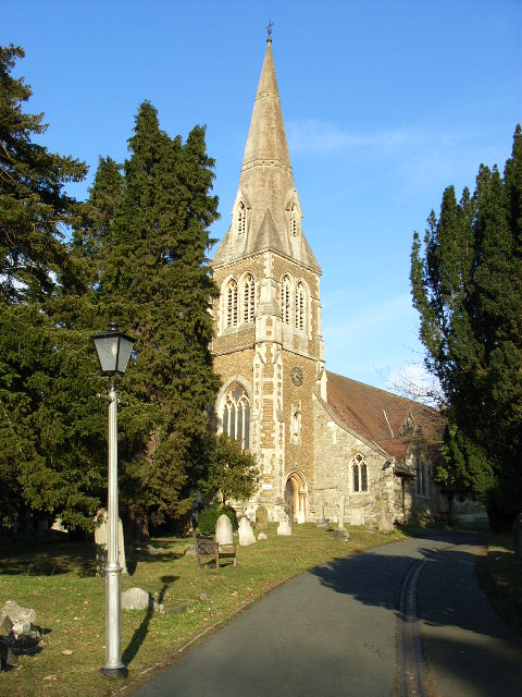 St Michael's, Camberley. The church stands in a prominent position above the A30, London Road.